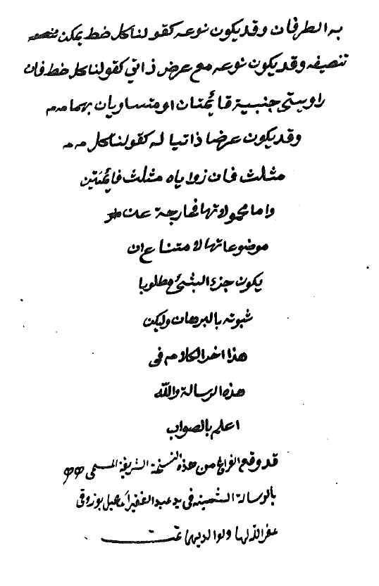 Manuscript of al-Risāla al-Shamsiyya by Najm al-Dīn al-Qazwīnī al-Kātibī. National Council for Culture, Arts and Letters.